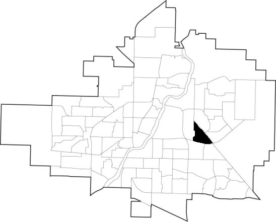 A map showing the location of the Sutherland Industrial neighbourhood in Saskatoon, Saskatchewan, Canada